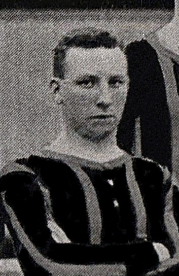 Alexander McCulloch while with Brentford FC in 1908. Picture from a Brentford photograph by Wakefields published in 1908.